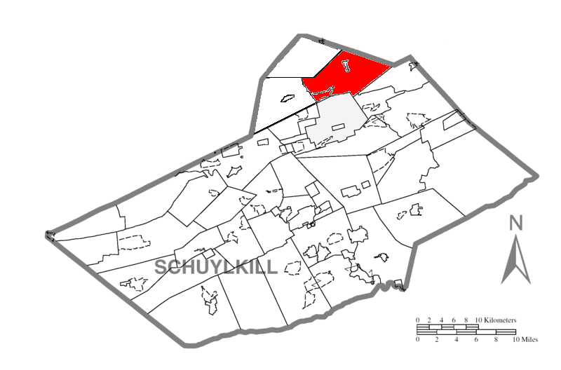 1 Map of Lebanon County, Pennsylvania, United States with township and municipal boundaries highlighting South Londonderry Township is taken from US Census website[1] and modified by Dincher in June 2008. My modifications licensed under the GNU Free Documentation License. Source: US Census website [2] Licensing